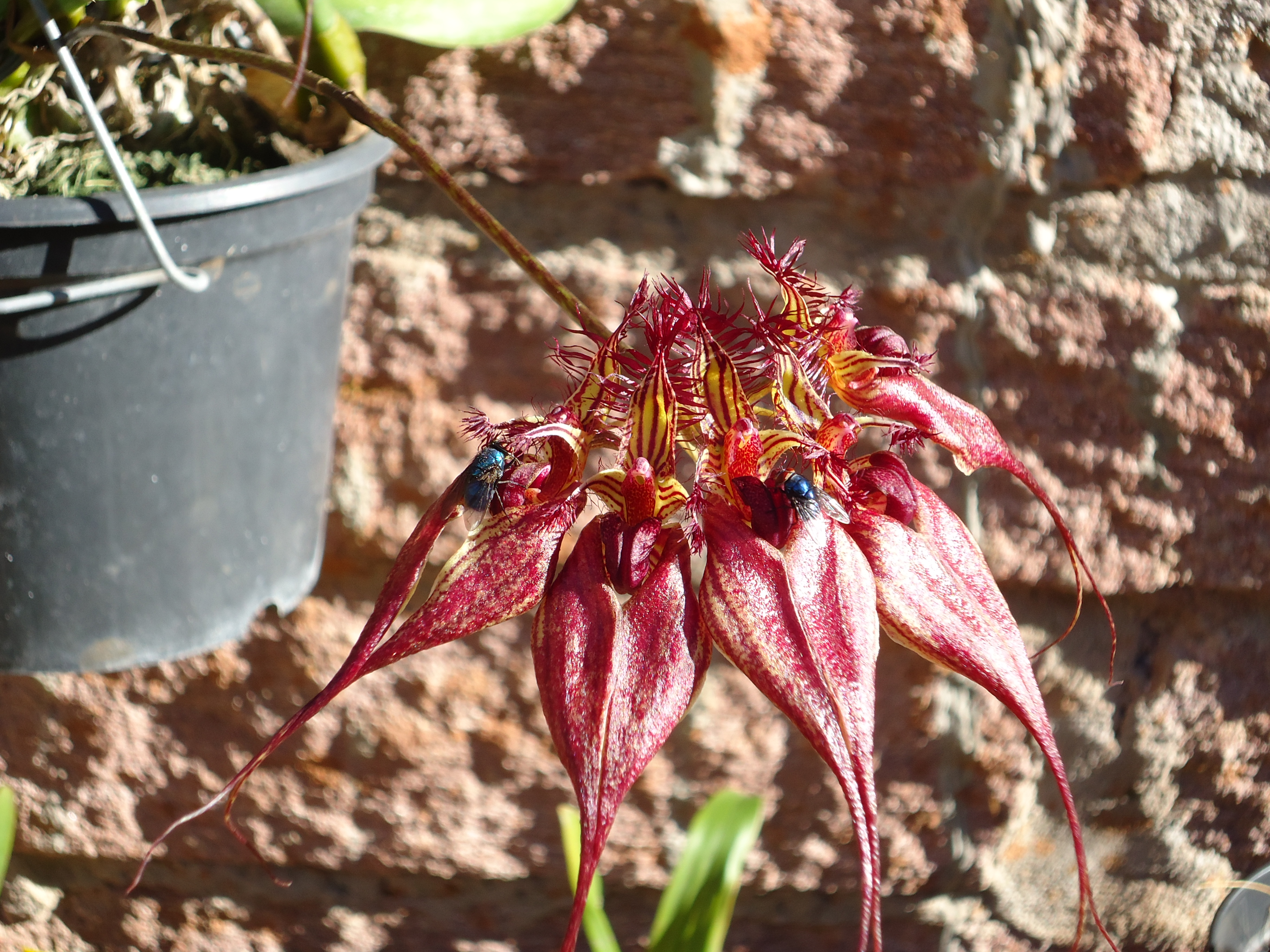 bulbophilum rothschildianum with gadflies performing the pollination of flowers.